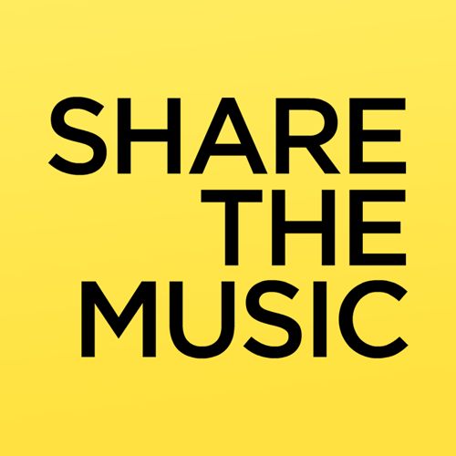 ShareTheMusic Logo